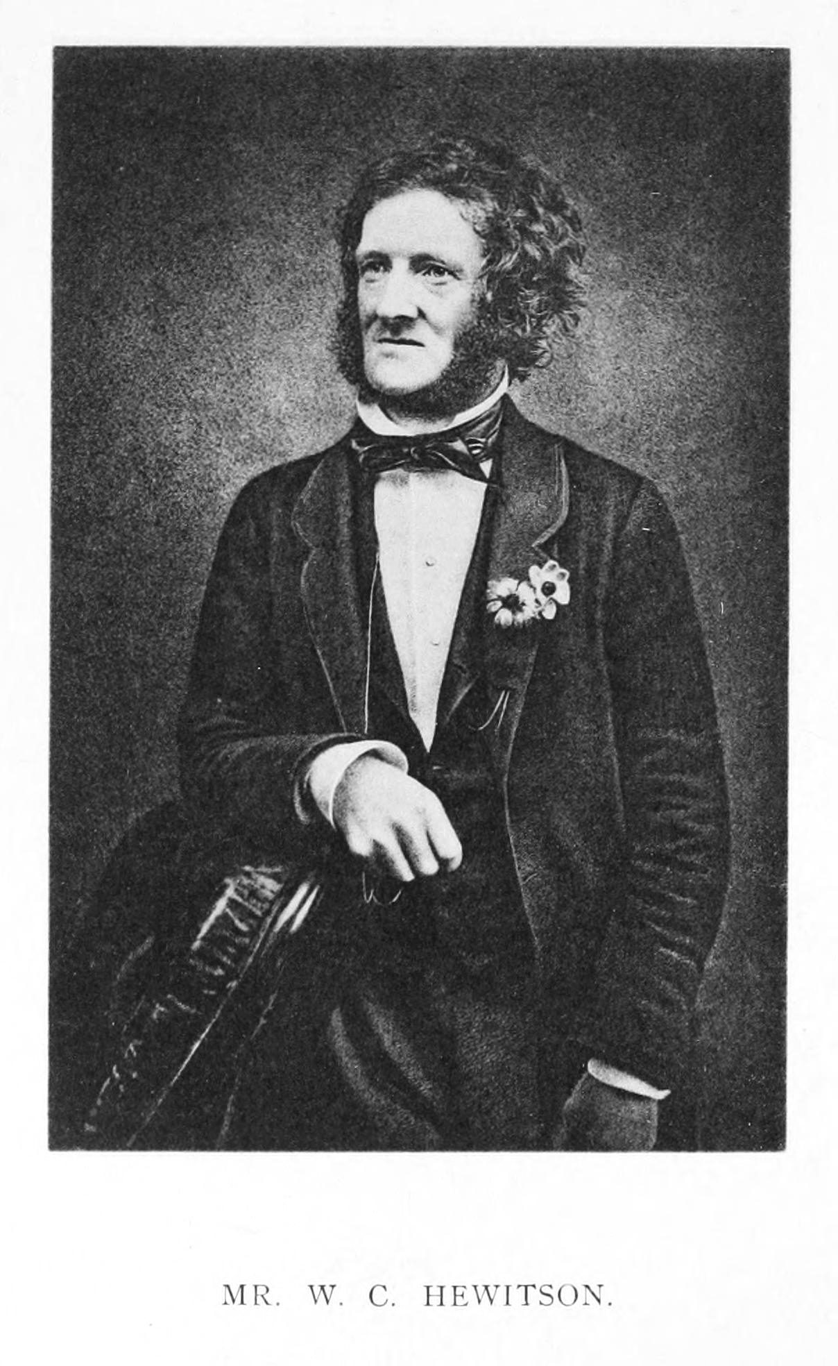 William Chapman Hewitson (9 January 1806 - 28 May 1878)